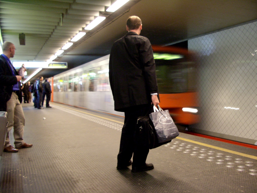 Train of the Brussels metro in Merode station, lines 1A and 1B